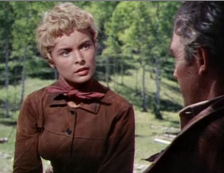 Screenshot of Janet Leigh from the film The Naked Spur (1953).